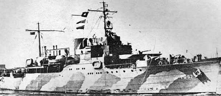 USS Plymouth (PG 57) 1 May 1942